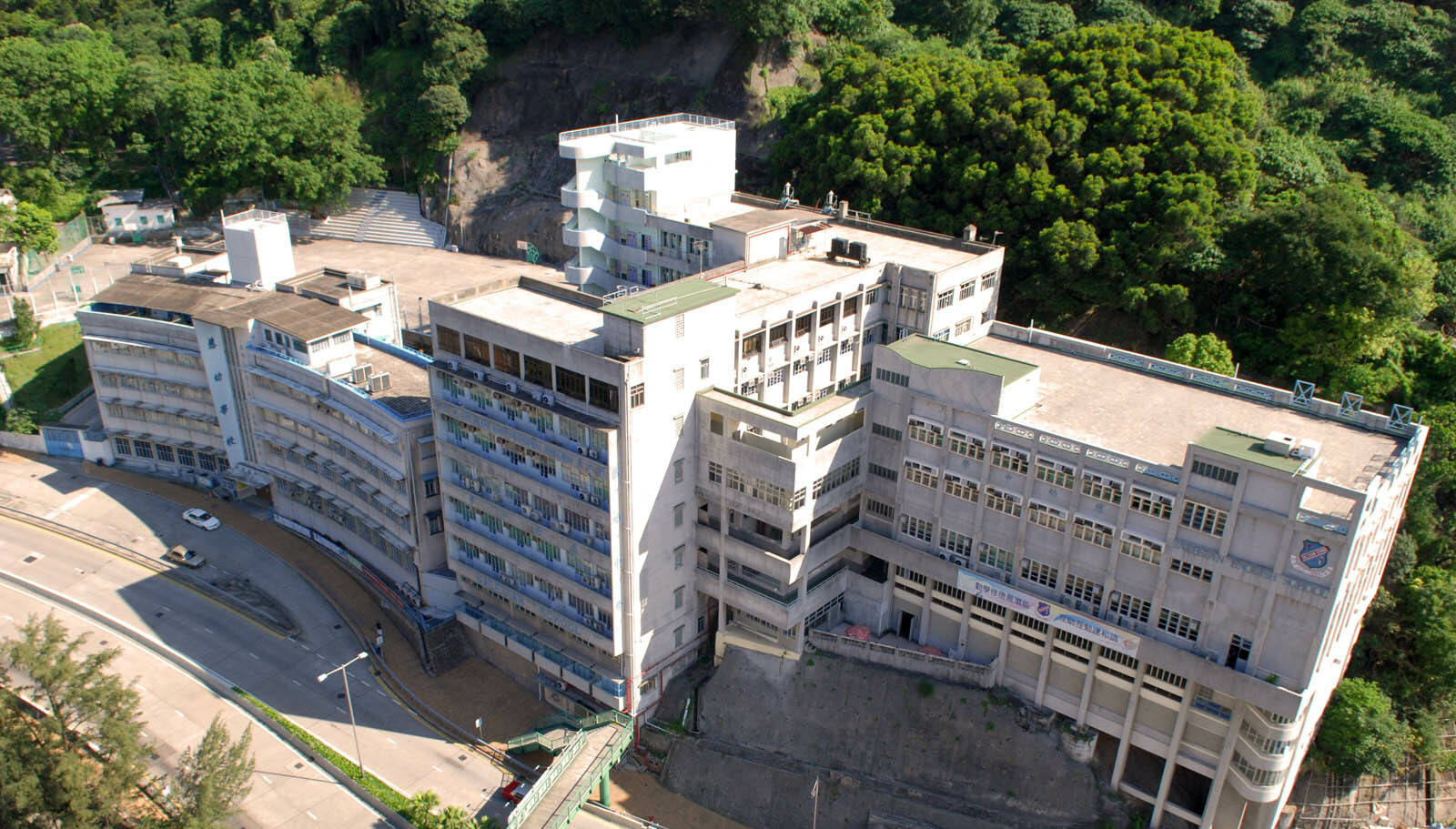 Salesian English School